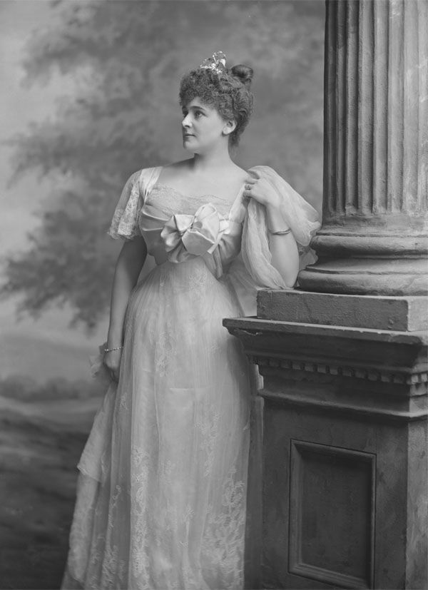 Daisy Greville, Countess of Warwick (1861-1938)